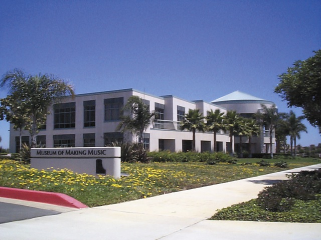 Museum of Making Music front